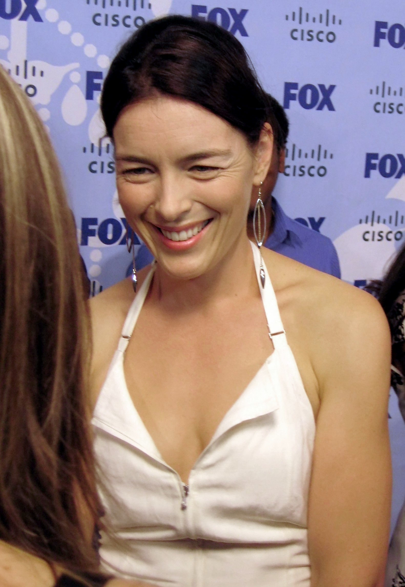 Fox Fall Eco-Casino Party, London Hotel, West Hollywood, California - Sept. 8, 2008